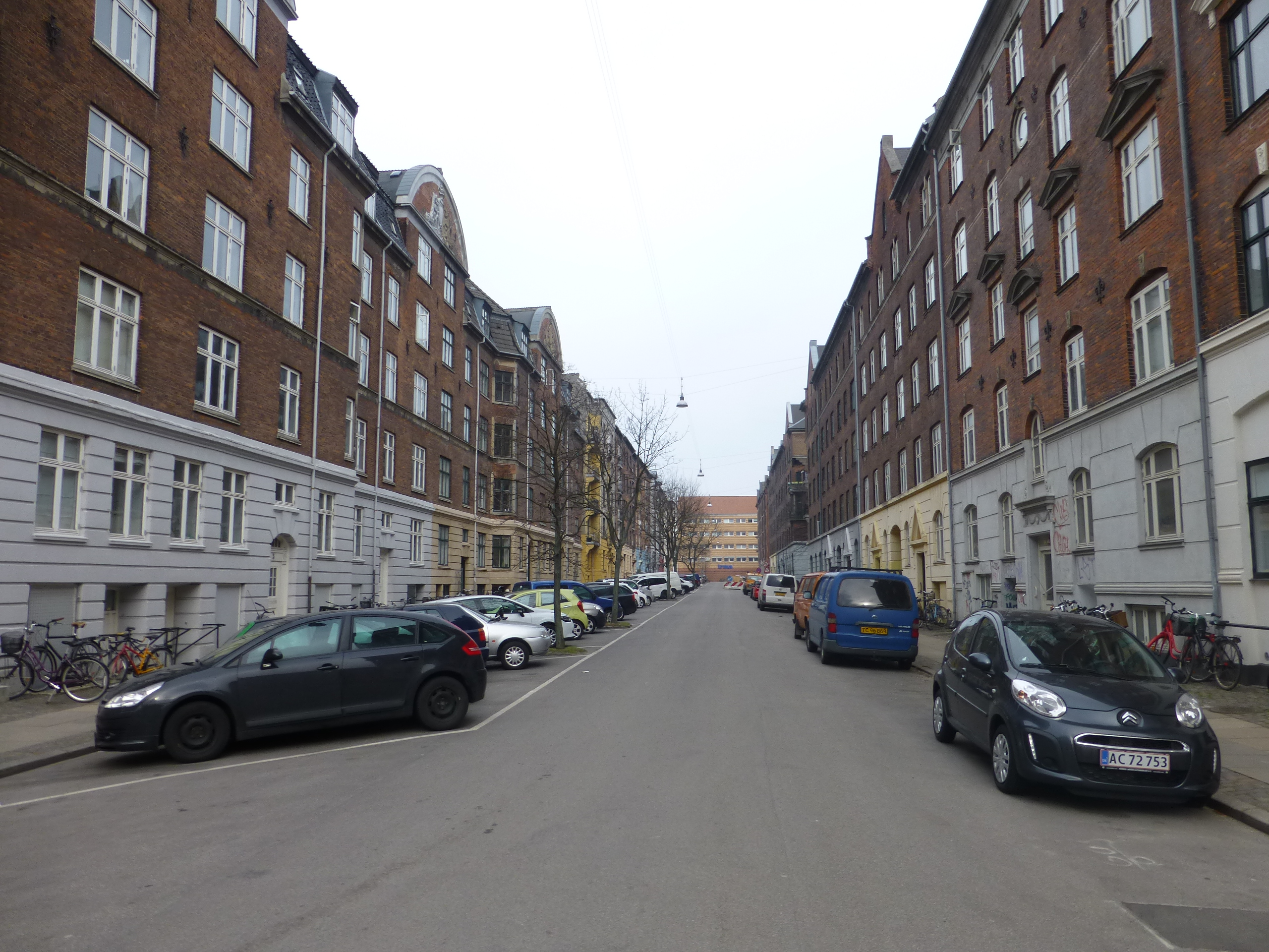 Vølundsgade is a street in Nørrebro in Copenhagen.